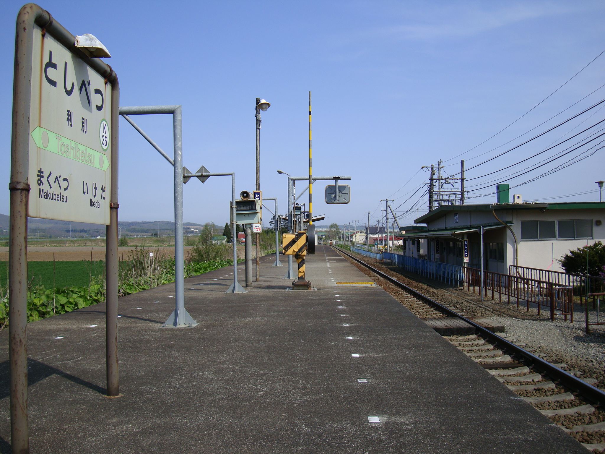 Toshibetsu Station